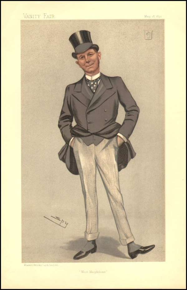 Caricature of Sir Frederick Seager Hunt Bt MP. Caption read "West Marylebone".